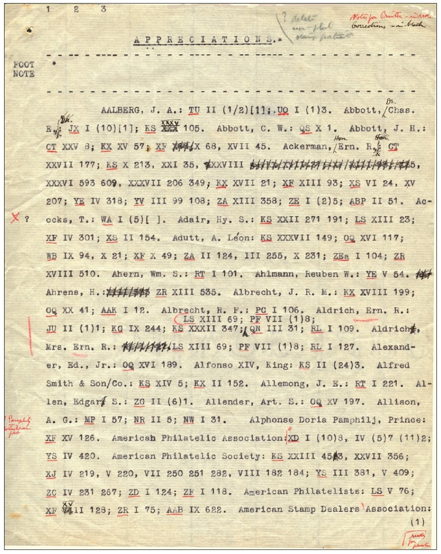 Creeke Index sample page. A.B. Creeke died in the U.K. 1932.